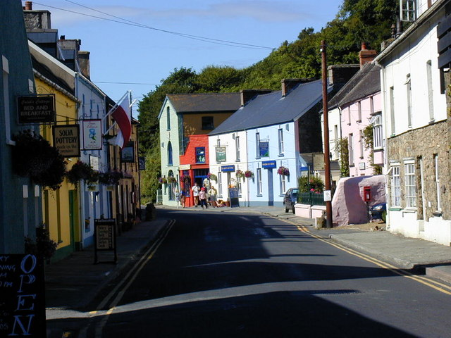 Solva